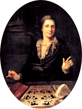 Vasili Bazhenov